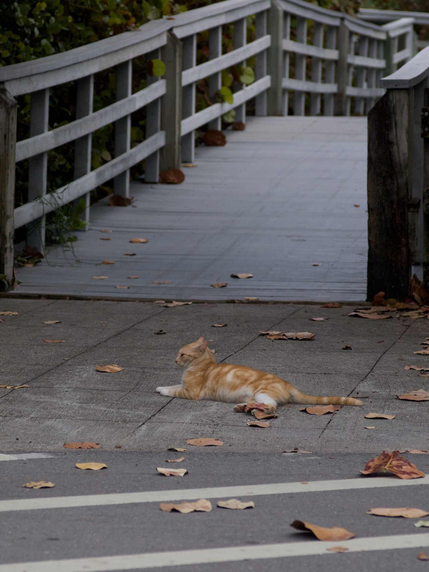 Original caption: “There's a colony of feral cats north of Hollywood Beach. Nice cats, sad stories.”